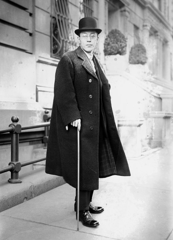 Hyo Togo.